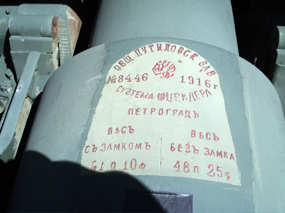 Russian 107 mm M1910 gun, displayed in Hämeenlinna Artillery Museum. This particular gun was manufactured by Putilov in 1916. Photo taken on June 18, 2006. Source: Photo by me, User:Balcer.